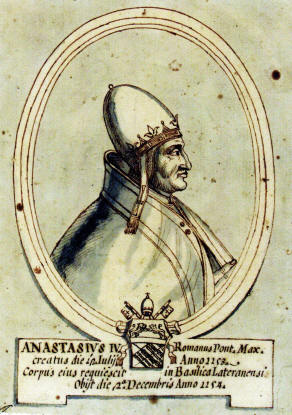 Sketch of Pope Anastasius IV. This is most likely a work of the 17th century, based directly on the etched portrait published by Basa in 1580.